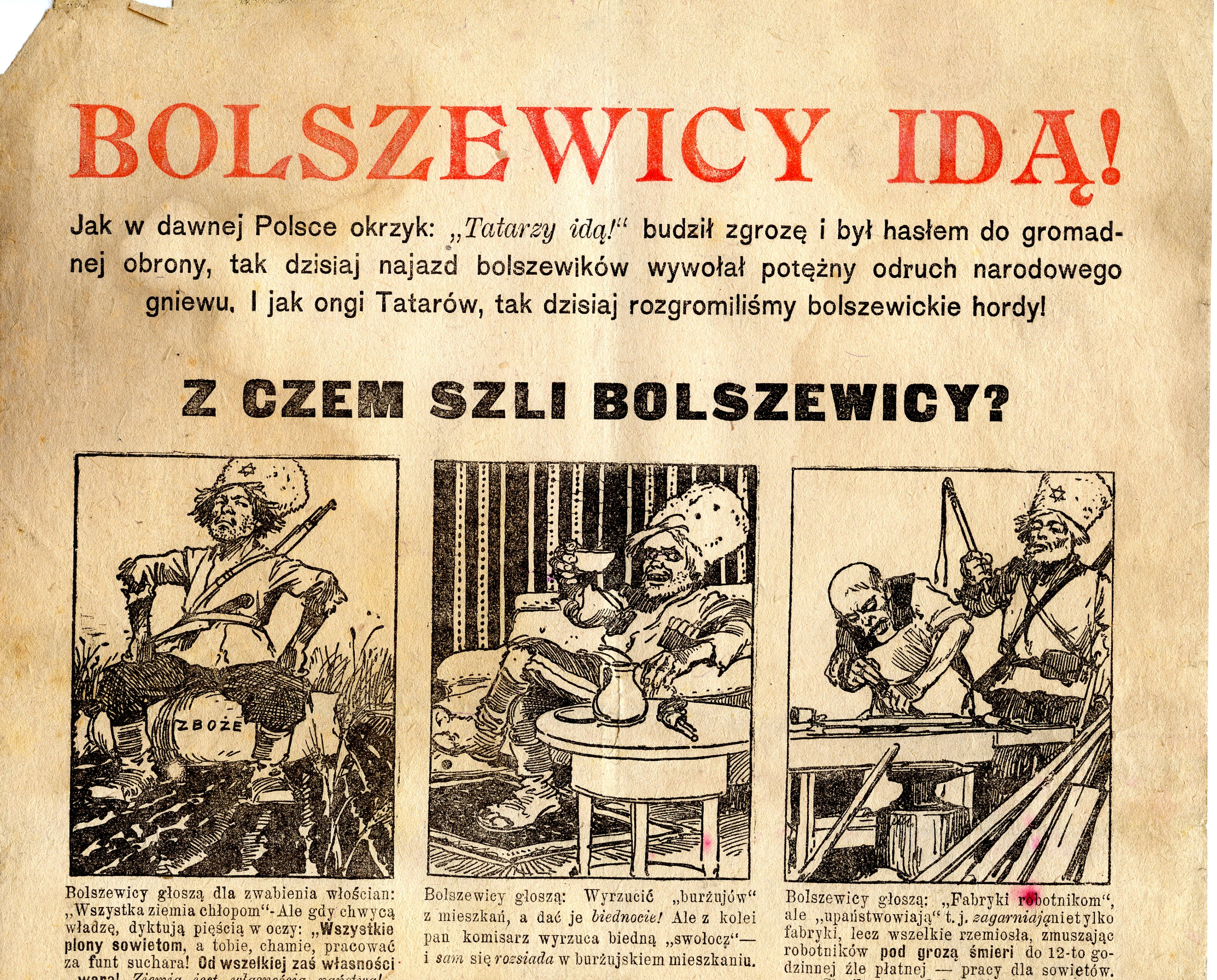 Polish anti-bolshevick propaganda piece. Polish-Soviet War. Biuro Propagandy Wewnetrznej. 31 VIII 1920. Top half. See File:Skany dokumentow historycznych 004.jpg for the bottom half.